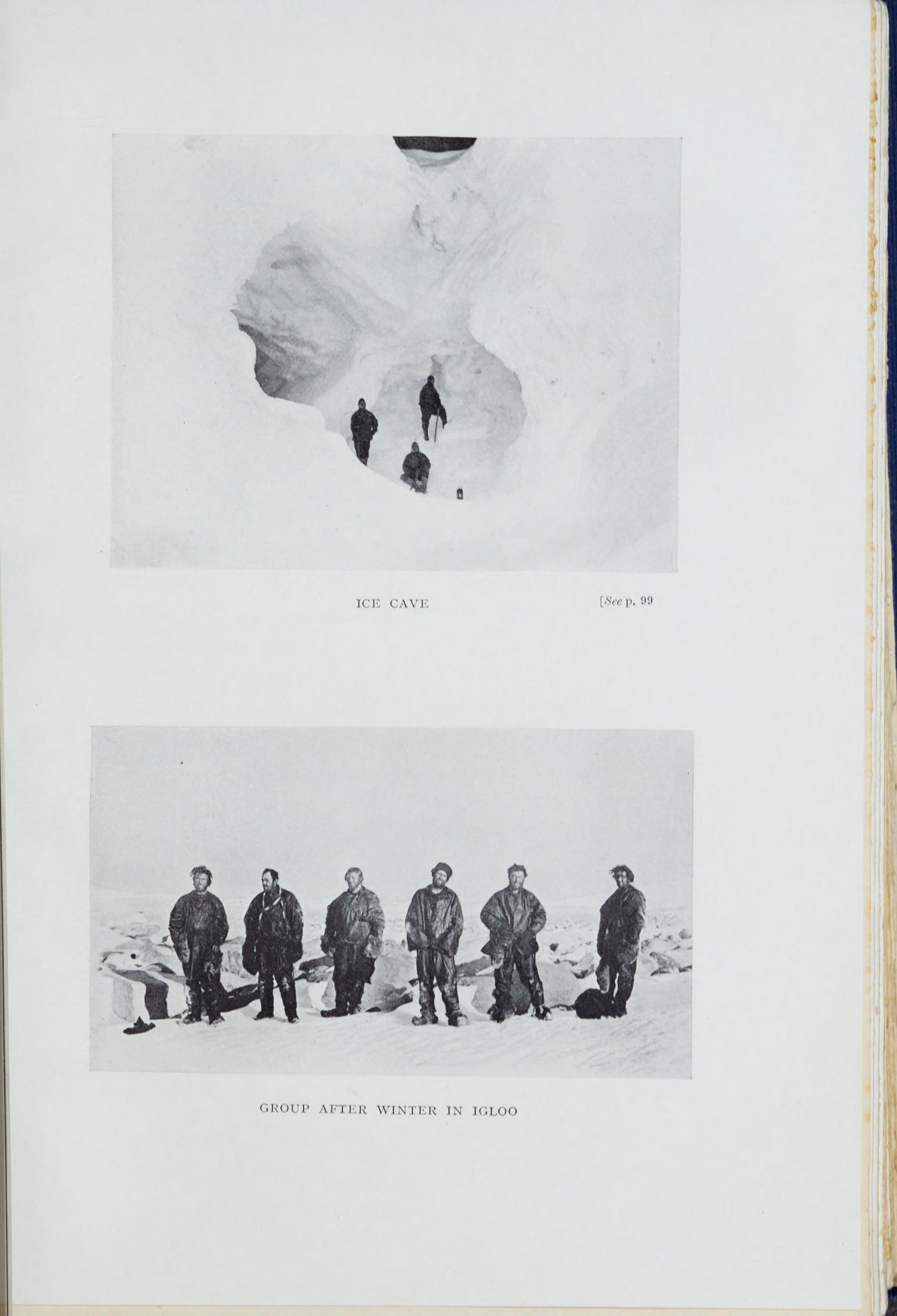 Scott's last expedition /